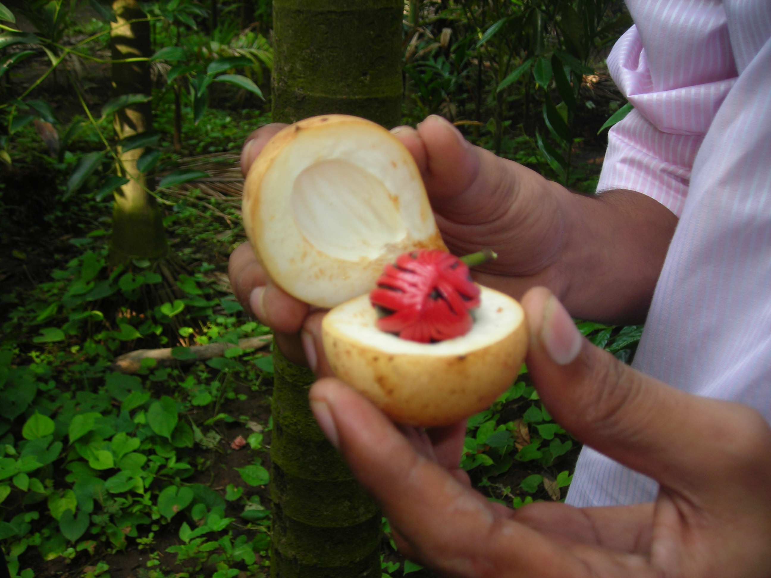 The nutmeg tree is any of several species of trees in genus Myristica.